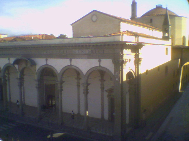 Santissima Annuzniata church, side view, in Florence, Italy